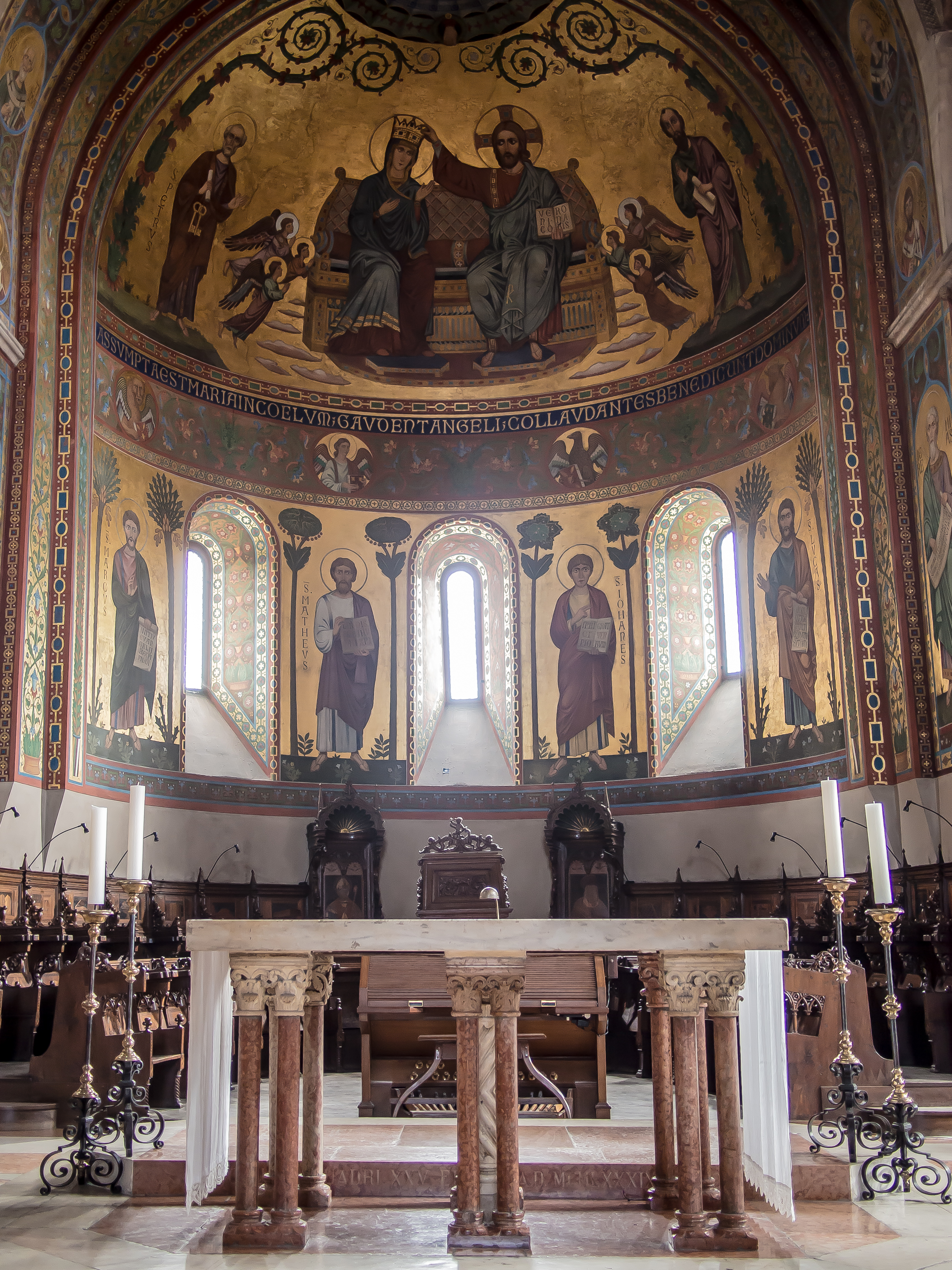 Modena Cathedral inside